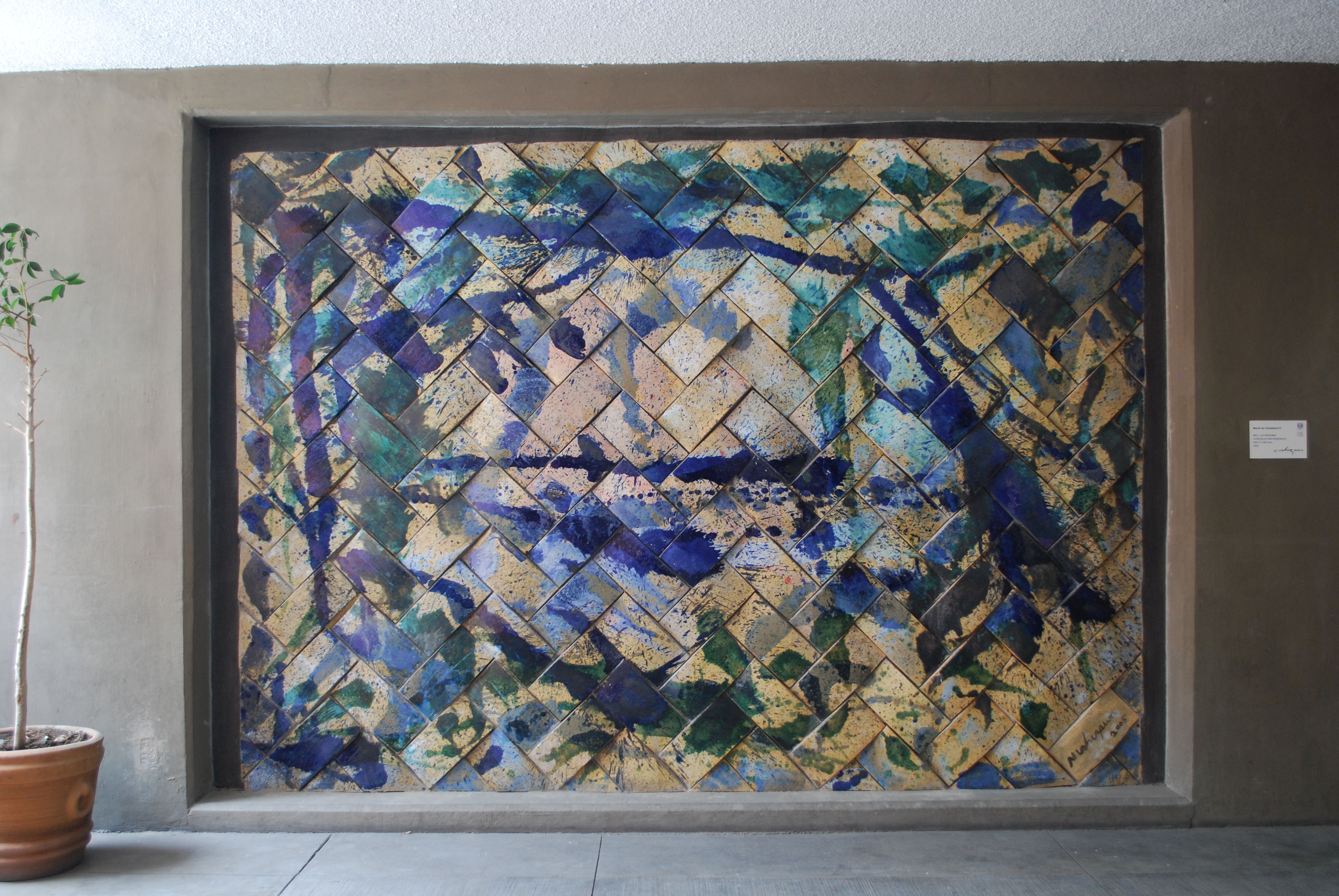 Mural en Cerámica II by Luis Nishizawa at the Escuela Nacional de Artes Plasticas in Mexico City